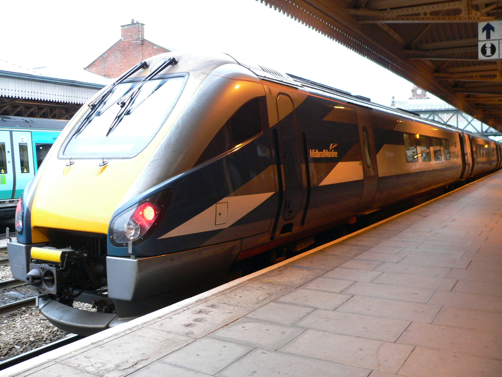 Midland Mainline class 222 "Meridian" Diesel Electric Multiple Unit 222009 at Nottingham station, 14 November 2005